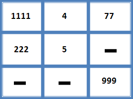 Reqemler